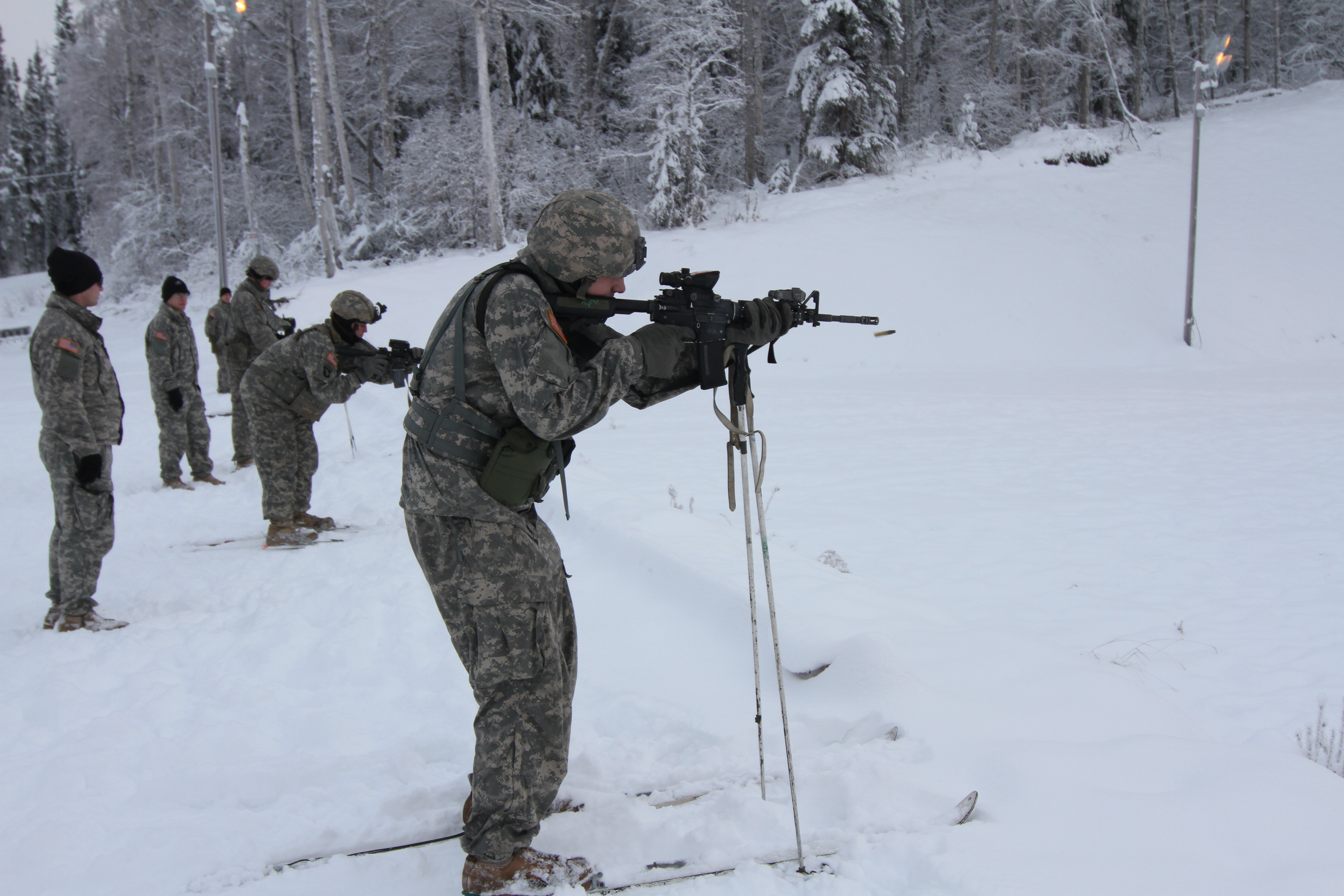 Soldiers from 1st Battalion, 5th Infantry Regiment shoot at their designated targets as part of their biathlon, coined Operation Bobcat ICE, on Fort Wainwright, Alaska, Dec. 5, 2014. Leaders used the event as a measure of their Soldiers ability to handle snowshoeing, firing on skis, and downhill skiing for their selection of teams going to the U.S. Army Alaska Winter Games in March 2015. (U.S. Army photo by Spc. Corey Confer) Unit: 1st Stryker Brigade Combat Team, 25th Infantry Division Public Affairs